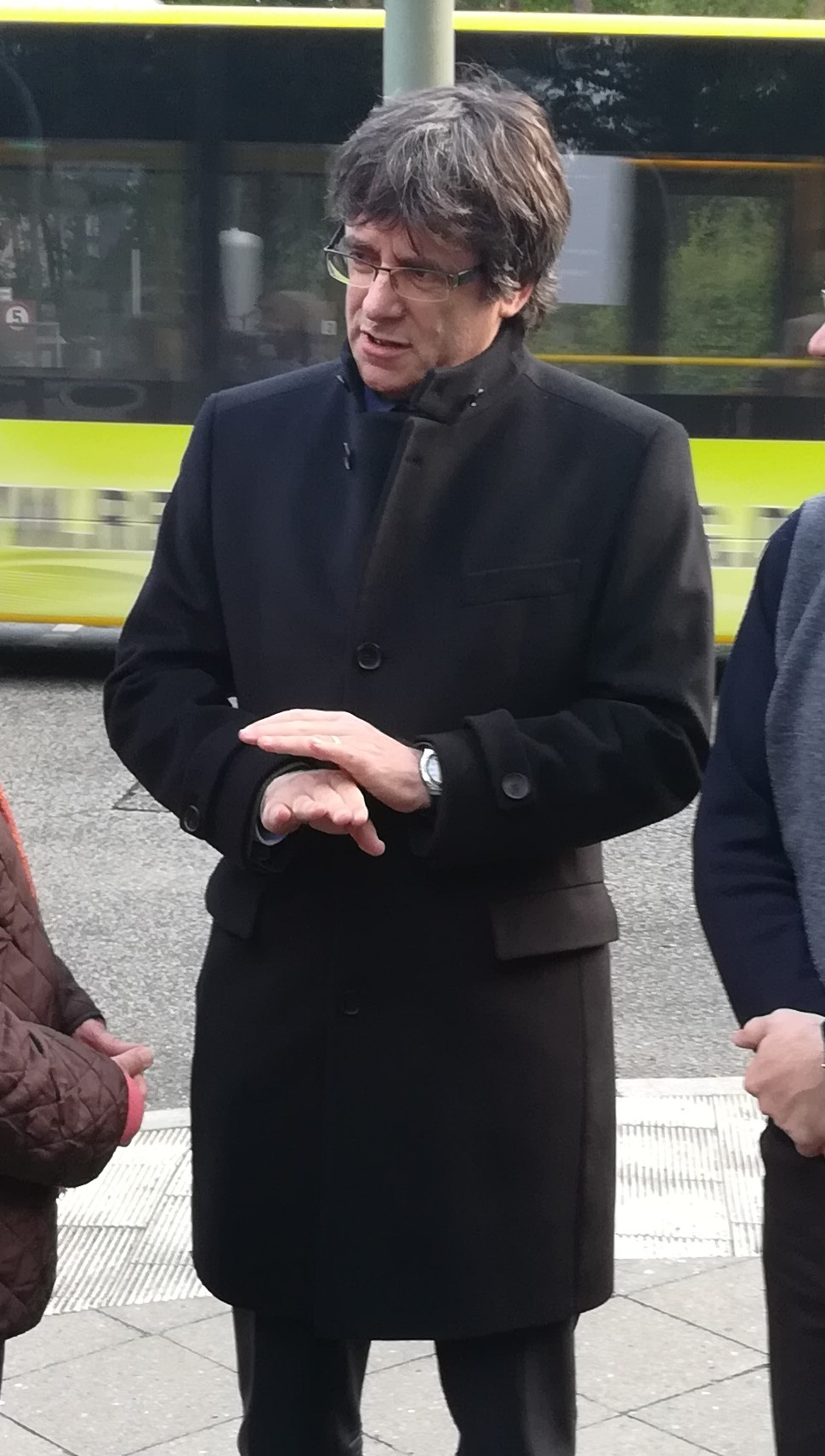 Carles Puigdemont attending a memorial for the bombing of Guernica in Berlin